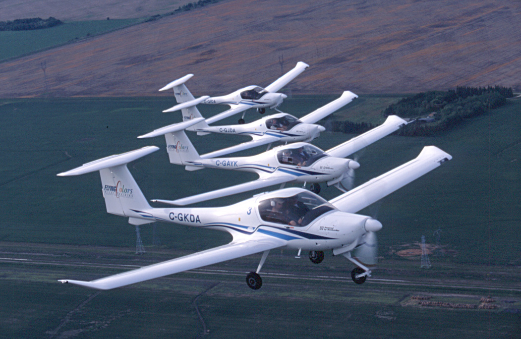 Diamond DA-20. The identification C-GJDA is now used by a Learjet 35. The identification C-GAYK is now used by a Cessna 185. The identification C-GIDA is now used by a Seastar SP2100. The identification C-GKDA is now used by a Diamond HK36 Super Dimona motor glider.